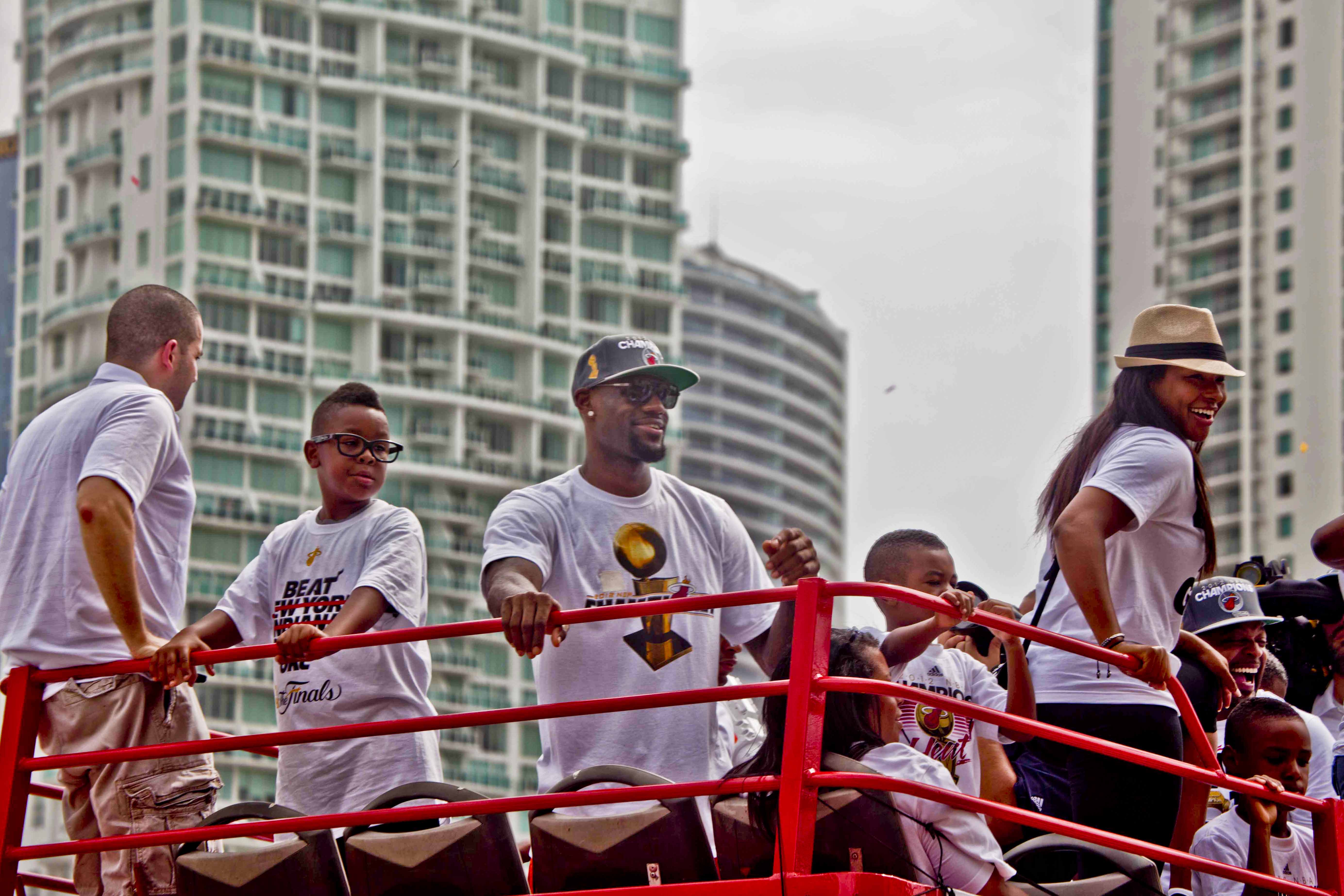 Lebron James - Champion, Championship MVP, League MVP